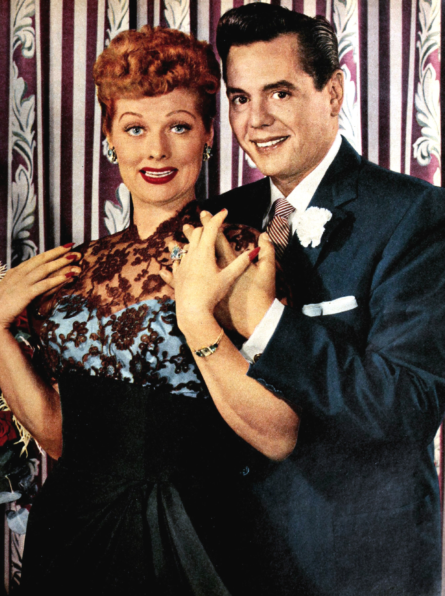 Photo of Lucille Ball and Desi Arnaz.